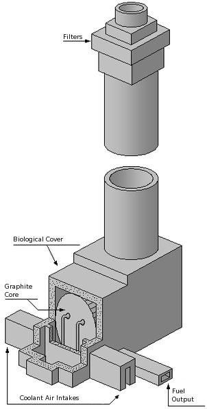 Windscale Schematic, English Labels.